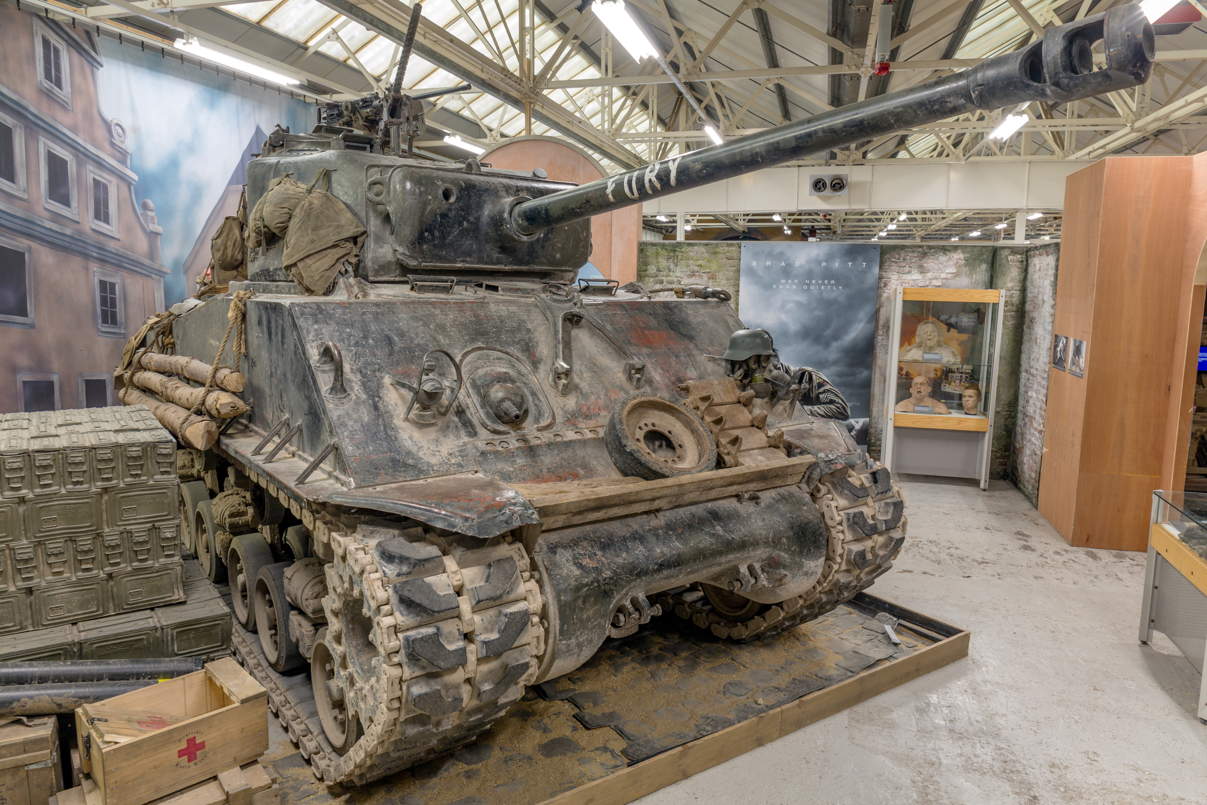 Bovington Tank Museum: M4A2E8 Sherman (Fury)